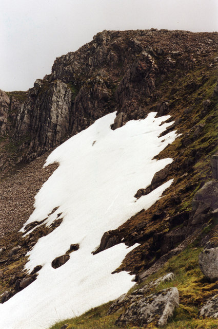 Snow patch Snow patch under the cliffs of Stob Ghabhar